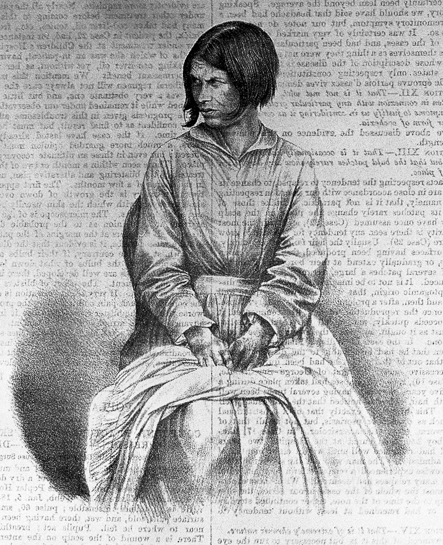 'Melancholy passing into mania' published in The Medical Times and Gazette volume 37 part I facing page 246 plate 4, John Churchill, London Wellcome Images Keywords: Psychiatry